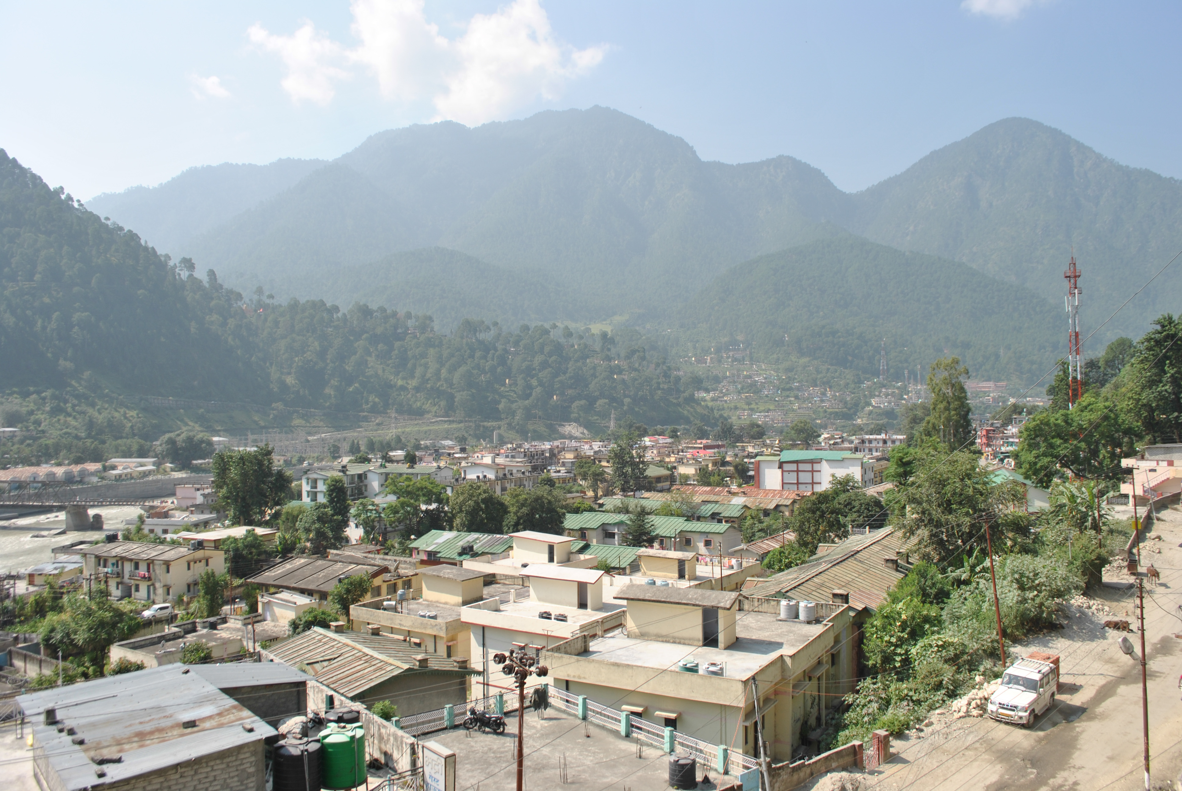 This picture was taken during Kalindi khal trek.